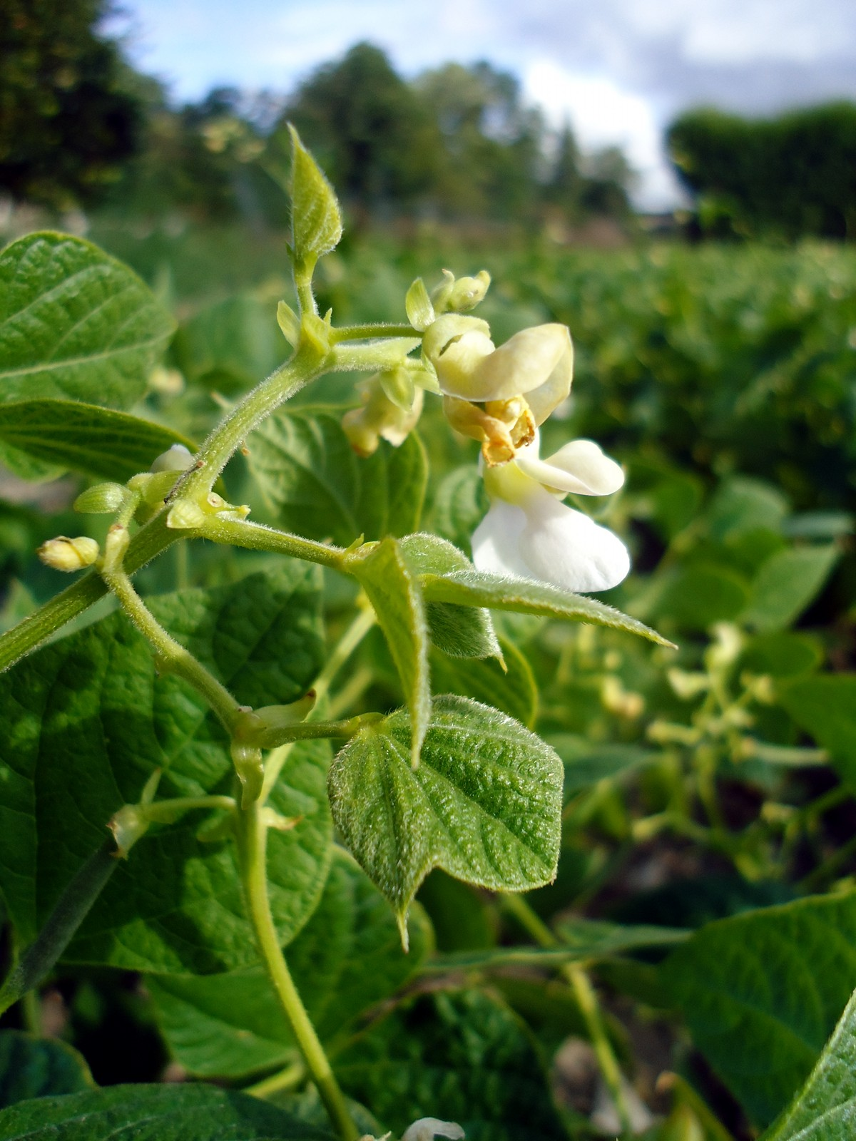 Flower of the motley bean from Araba/Álava (Basque Country, Spain)